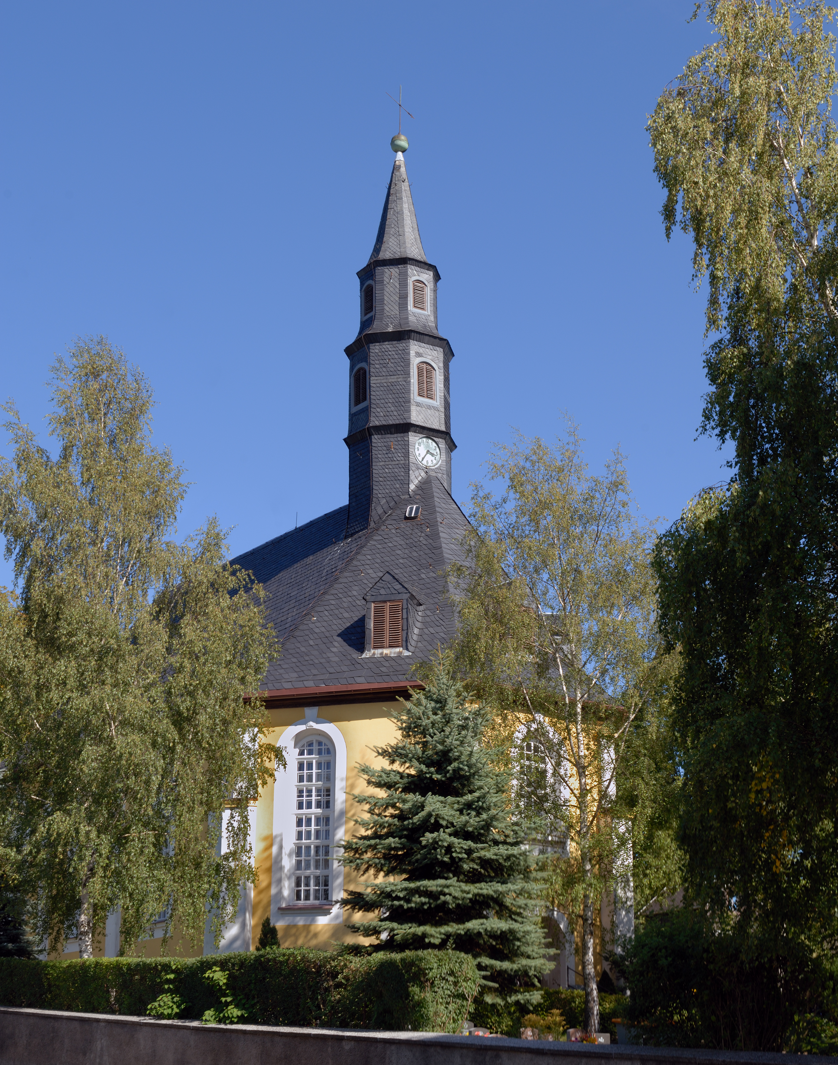 This image shows the church in Stützengrün, Saxony, Germany. It is a four segment panoramic image.